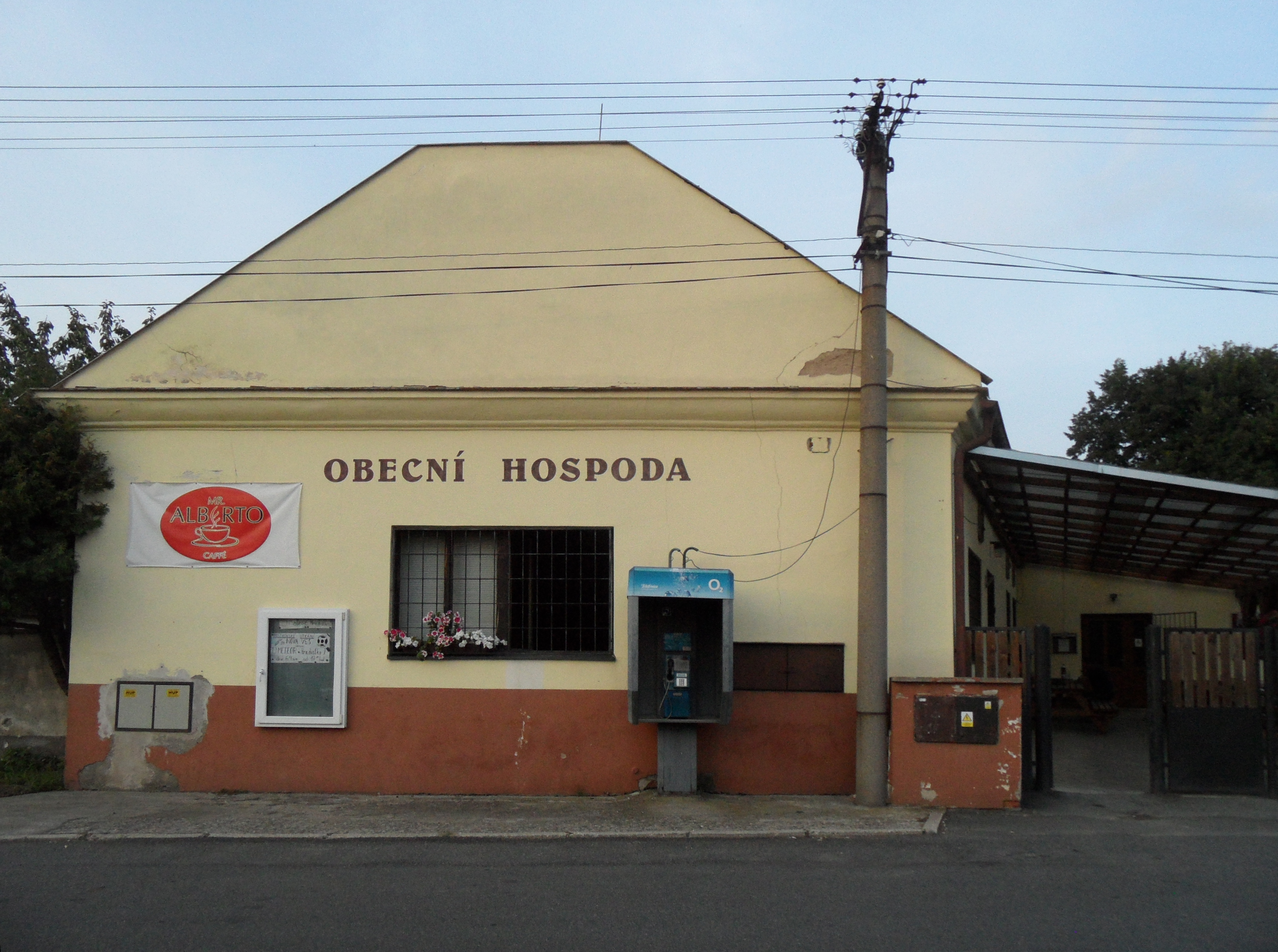 Hradišťko I f. Municipal Pub, Kolín District, the Czech Republic.